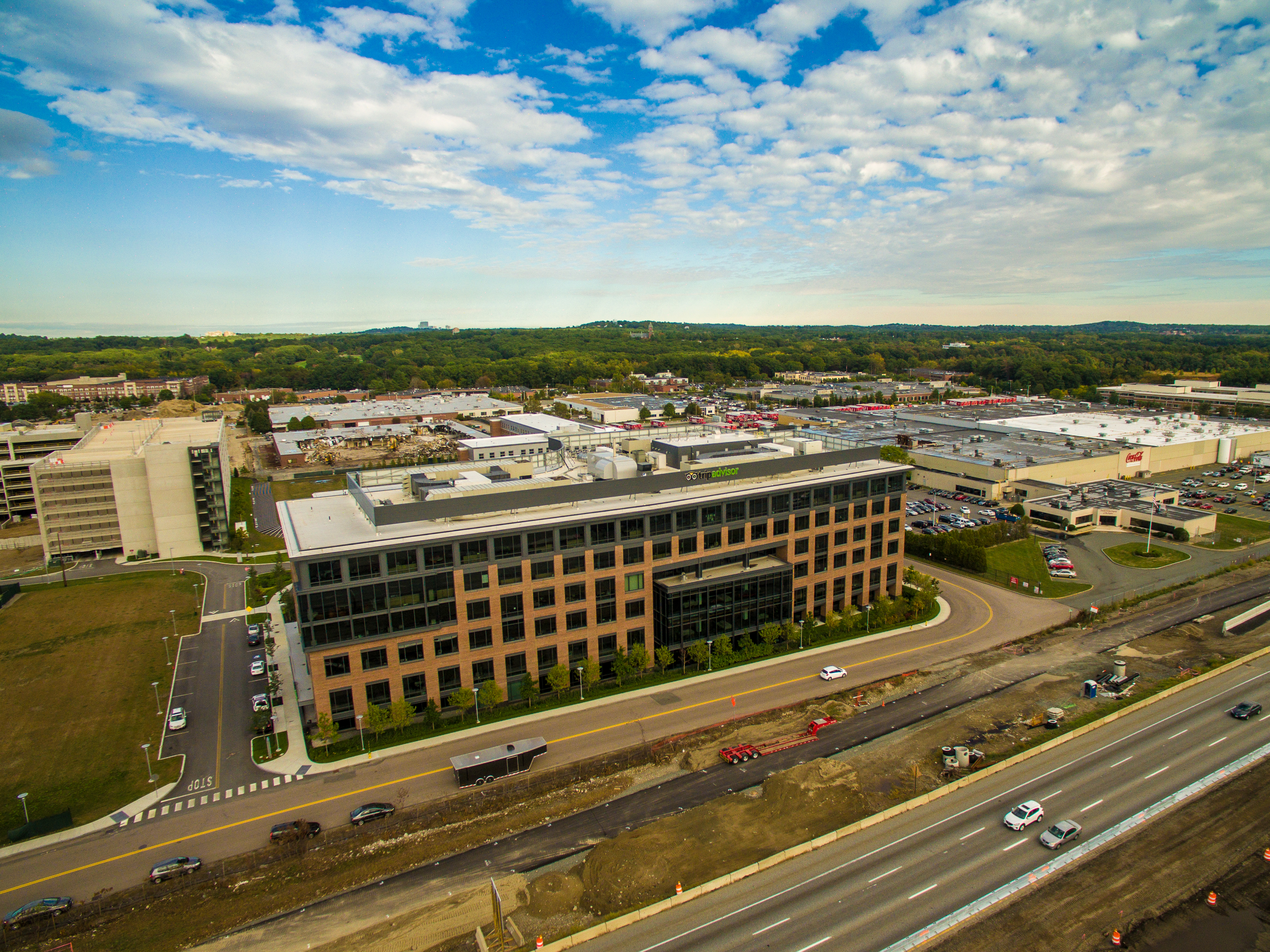 Aerial image of TripAdvisor headquarters taken 10/3/2016 in Needham, MA